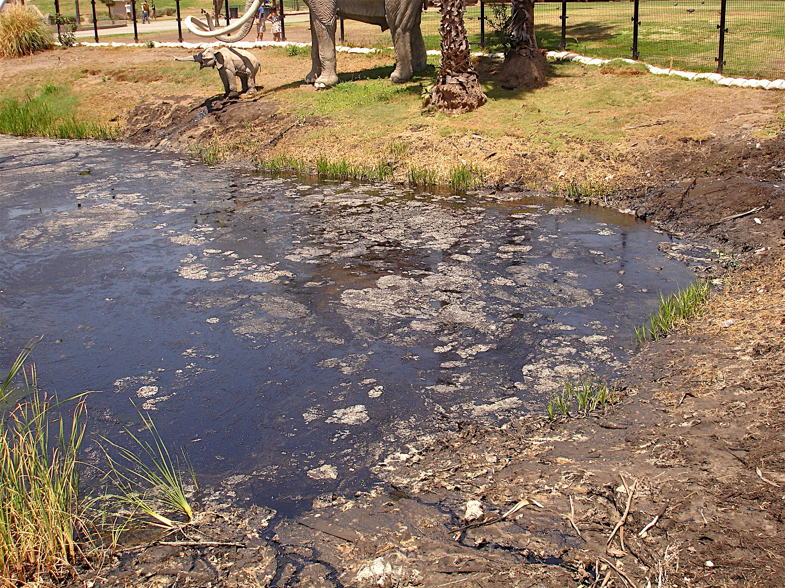 La Brea Tar Pits